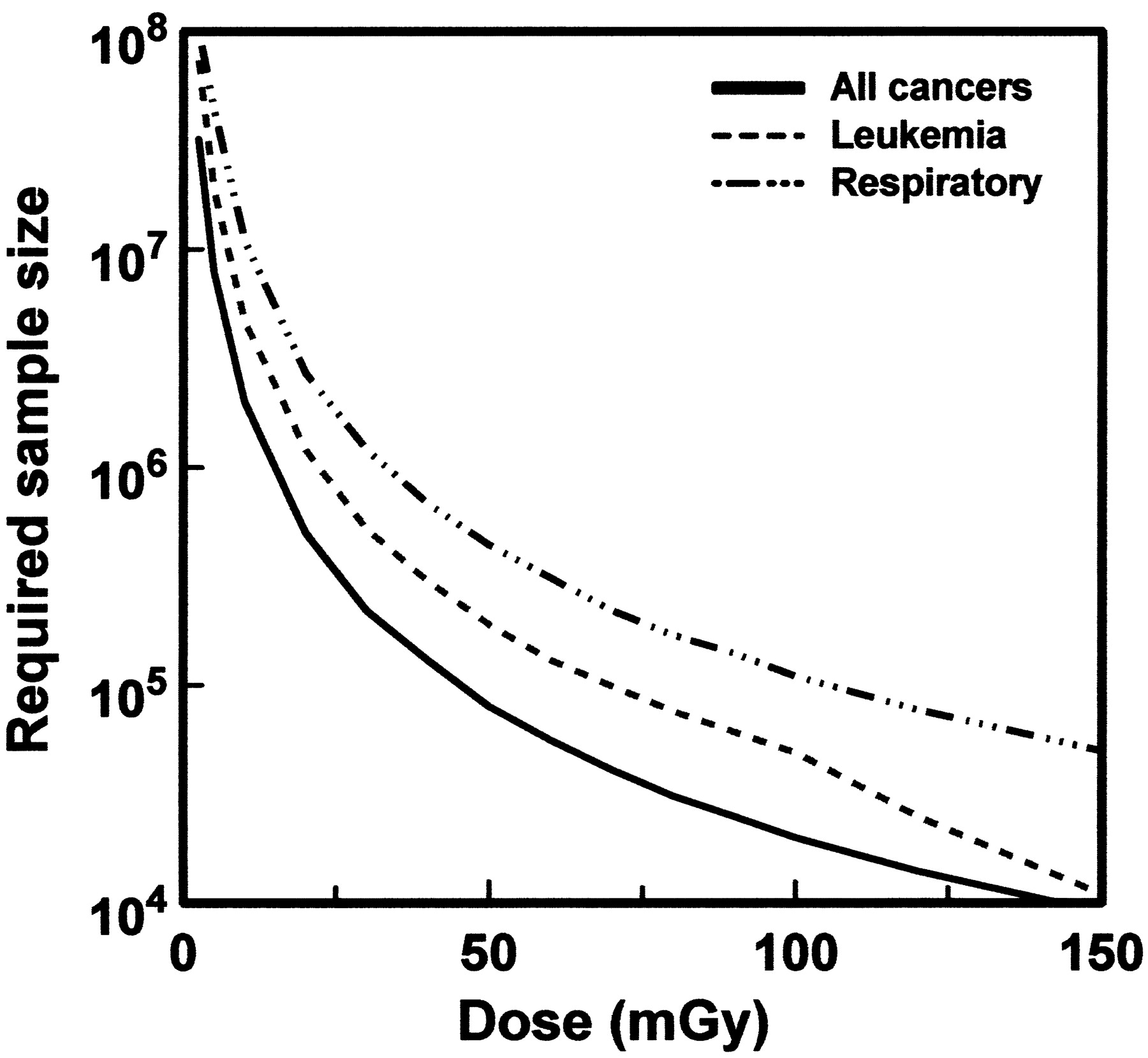 Size of a cohort exposed to different radiation doses, which would be required to detect a significant increase in cancer mortality in that cohort, assuming lifetime follow-up.